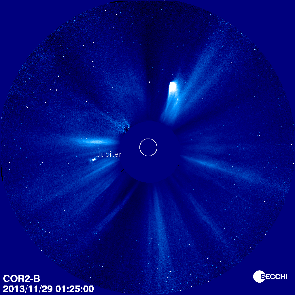 STEREO-B COR2 image of comet C/2012 S1 (ISON) re-emerging roughly 7 hours after perihelion passage (closest approach to the Sun).